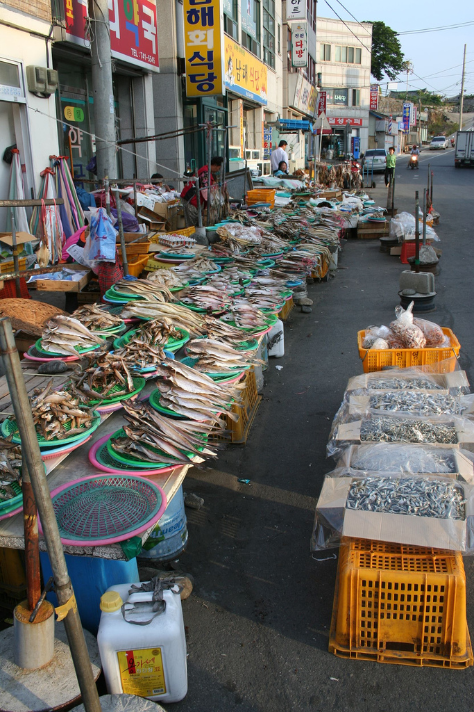 Gampo port in Gyeongju, South Korea